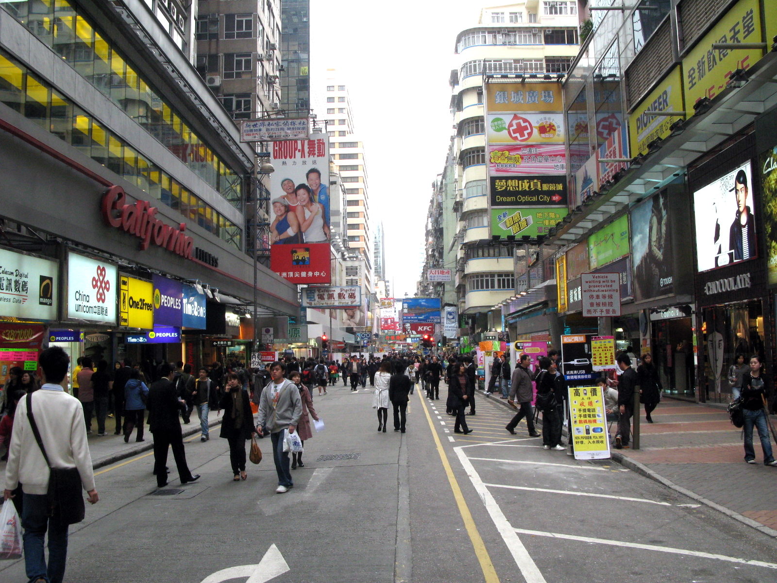 HK Sai Yeung Choi Street South in 2008/02